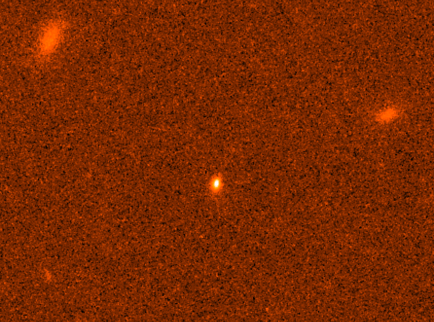 This image of the field of GRB 970508 was taken in early August 1998. The object at the center of the field is host galaxy of the gamma-ray burst. The width of the image on the sky is about 12.5 arcseconds. North is up; east to the left. The major-axis of the galaxy is about 0.5 arcseconds in length.